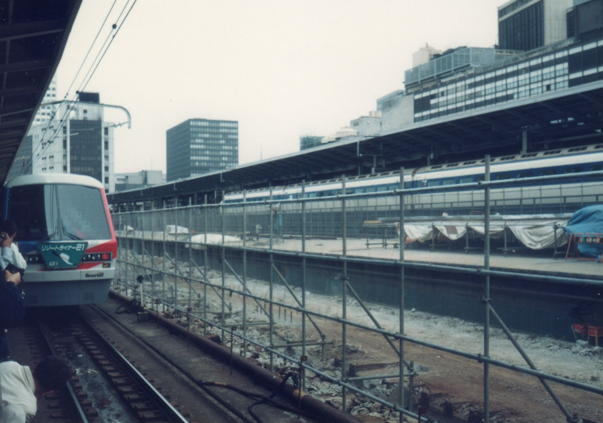 Apparently the bullet train from the side of the 10th platform of Tokyo Station. Between the platform of the Shinkansen is the construction of the platform for the Tohoku Shinkansen.